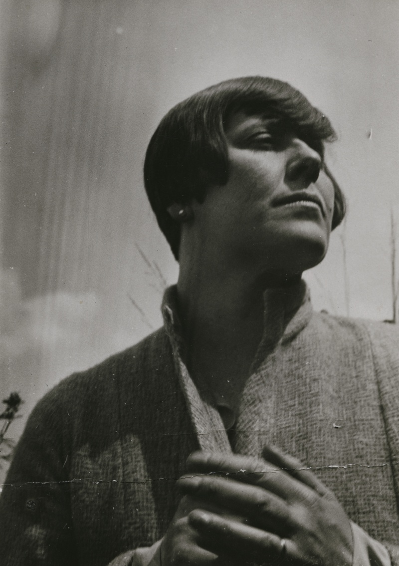 Hilla von Rebay by László Moholy-Nagy, 1924. Gelatin silver print